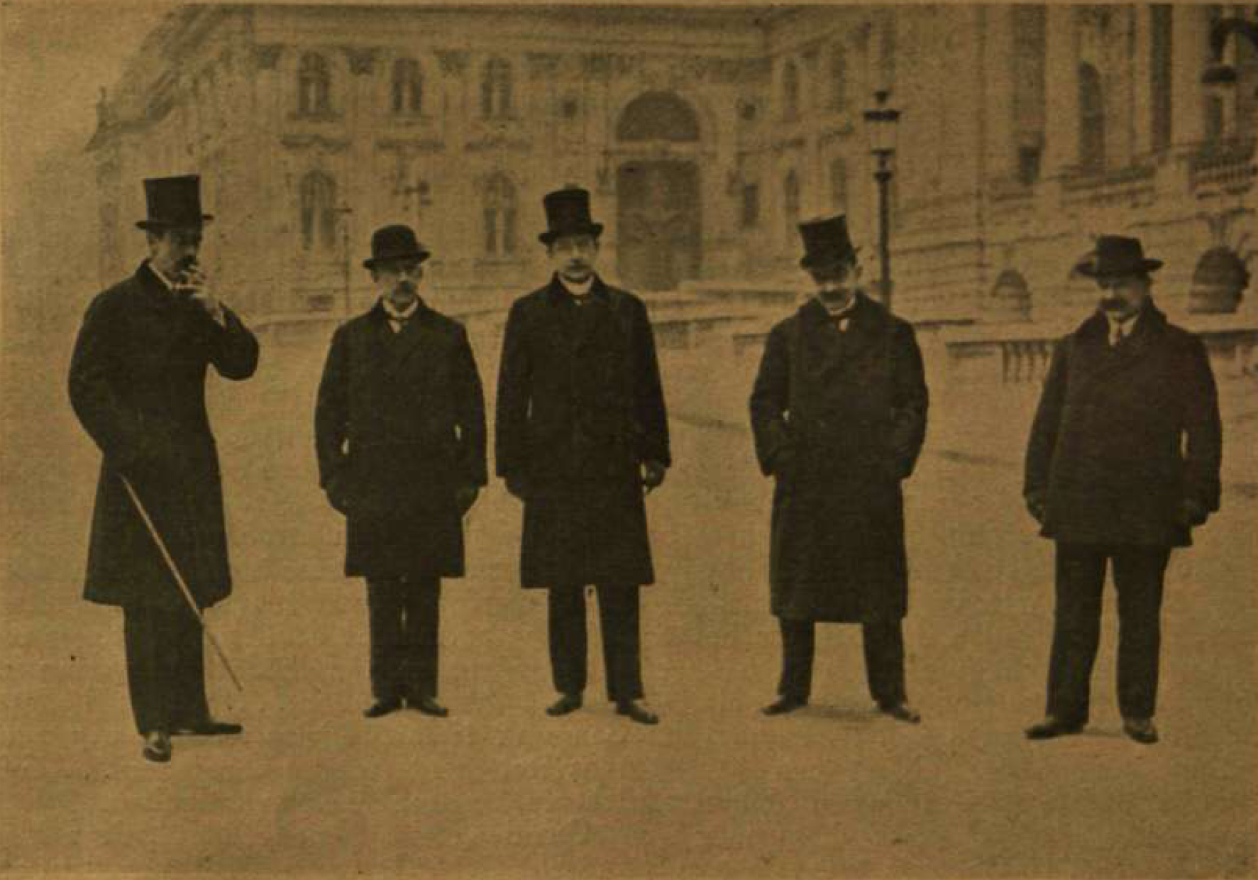 The new members of the Hungarian Government before pledging their parliament oath in Budapest, Hungary in 1921. Published in the weekly periodical newspaper called Vasarnapi Ujság by the printing press inc. Franklin Irodalmi és Nyomdai Rt. in 1921.